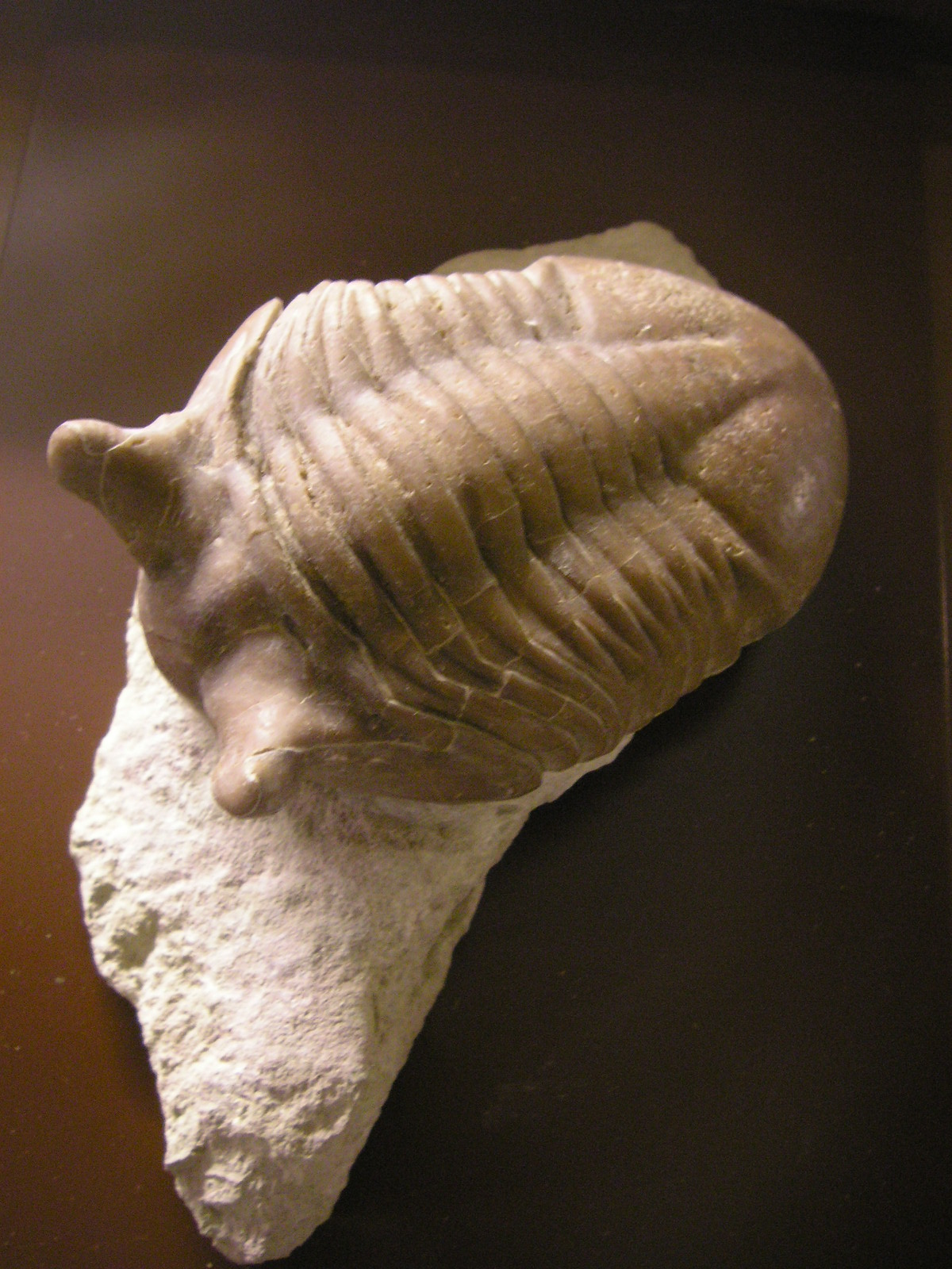 Fossilised Asaphus punctatus trilobite (Stielaugentrilobit) from St. Petersburg, Russia. Dated to the Ordovizium. Today at the Naturhistorisches Museum in Vienna.